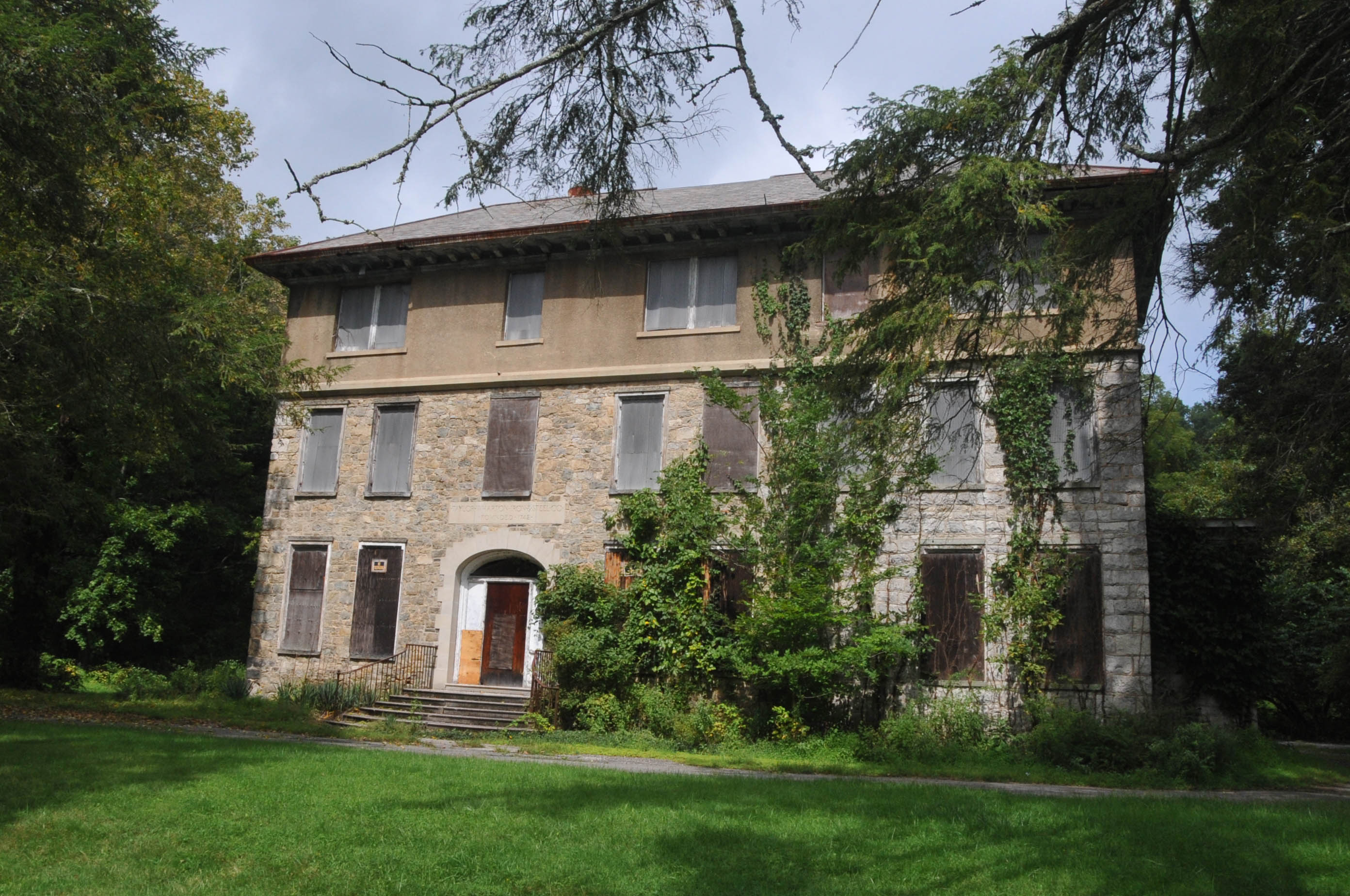 ALSO KNOWN AS THE T.I.S.C.O. COMPLEX; ; 1742 IRON WORKS; UNION FORGE/ TAYLOR IRON AND STEEL COMPANY PRODUCED ARMAMENTS FOR ALL AMERICAN WARS BETWEEN 1742-1971